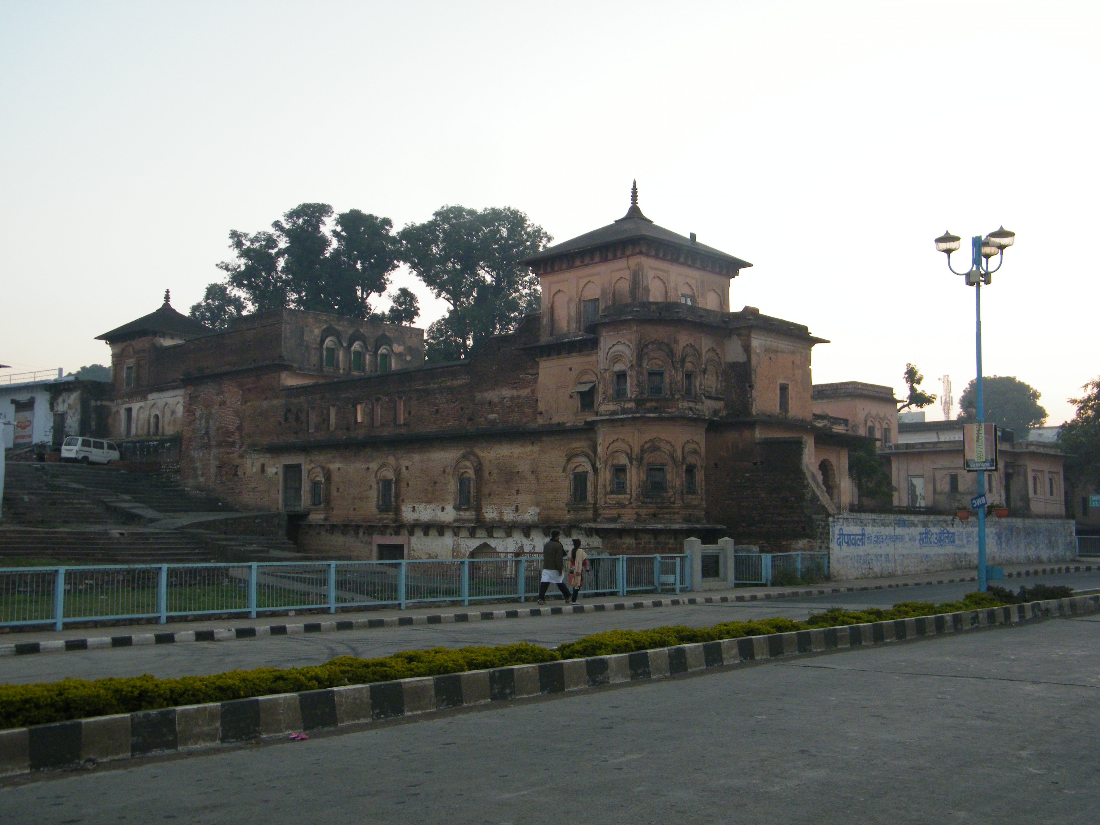 Example of Architecture in Bhopal